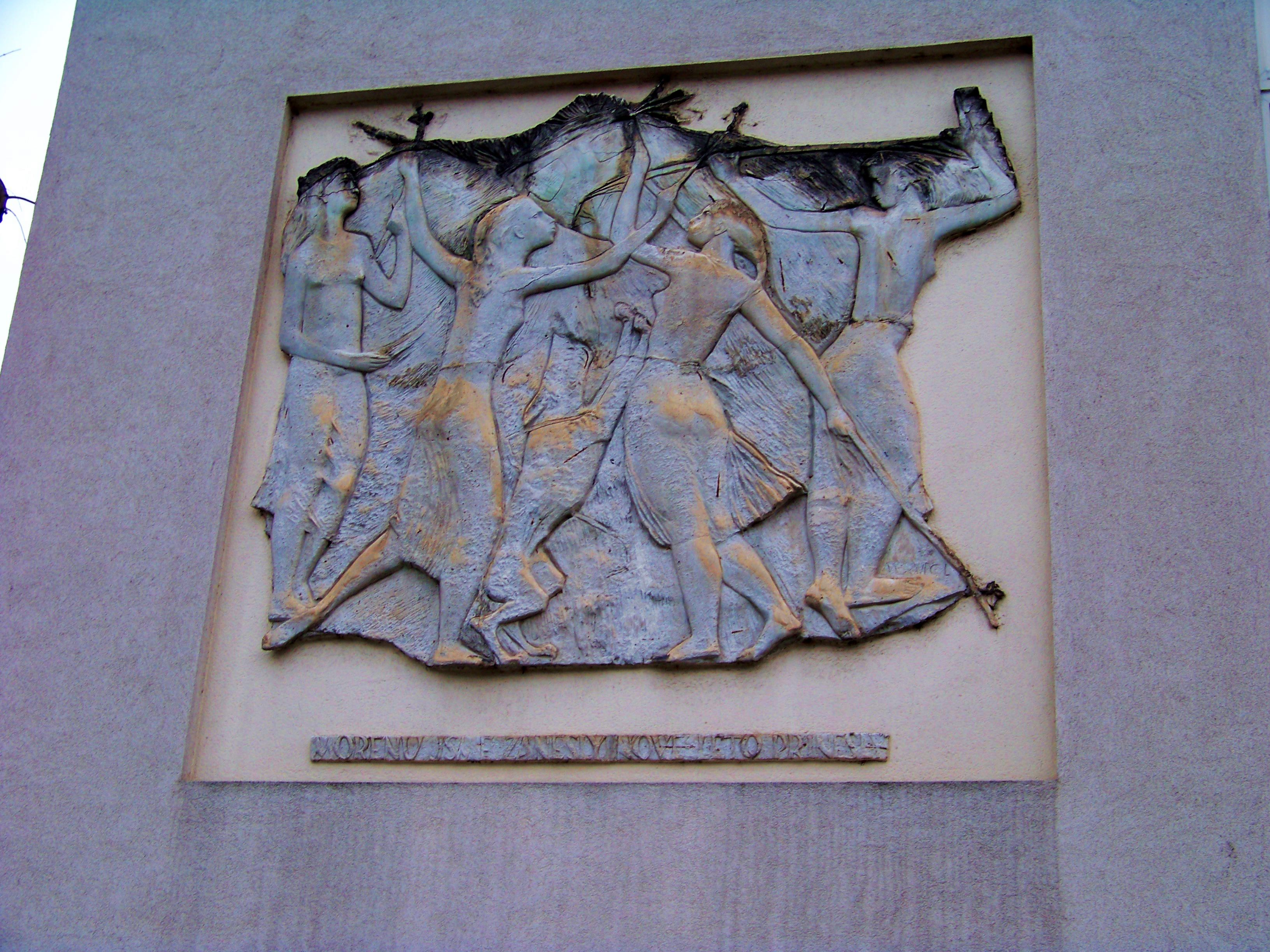 Vršovice, Prague, the Czech Republic. Ruská Street. A relief of throwing up of Morena as a house sign.